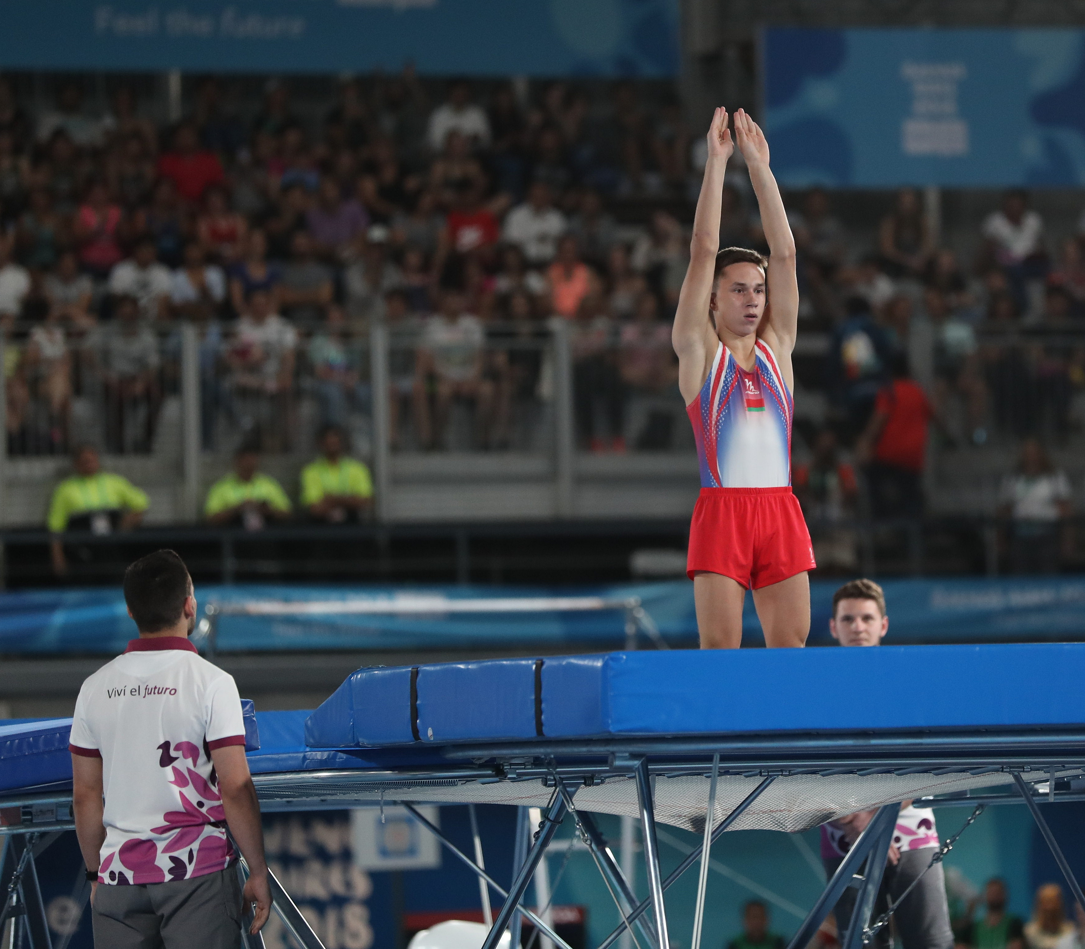 Qualification of the boys' trampoline gymnastics at the 2018 Summer Youth Olympics in Buenos Aires on 8 October 2018.